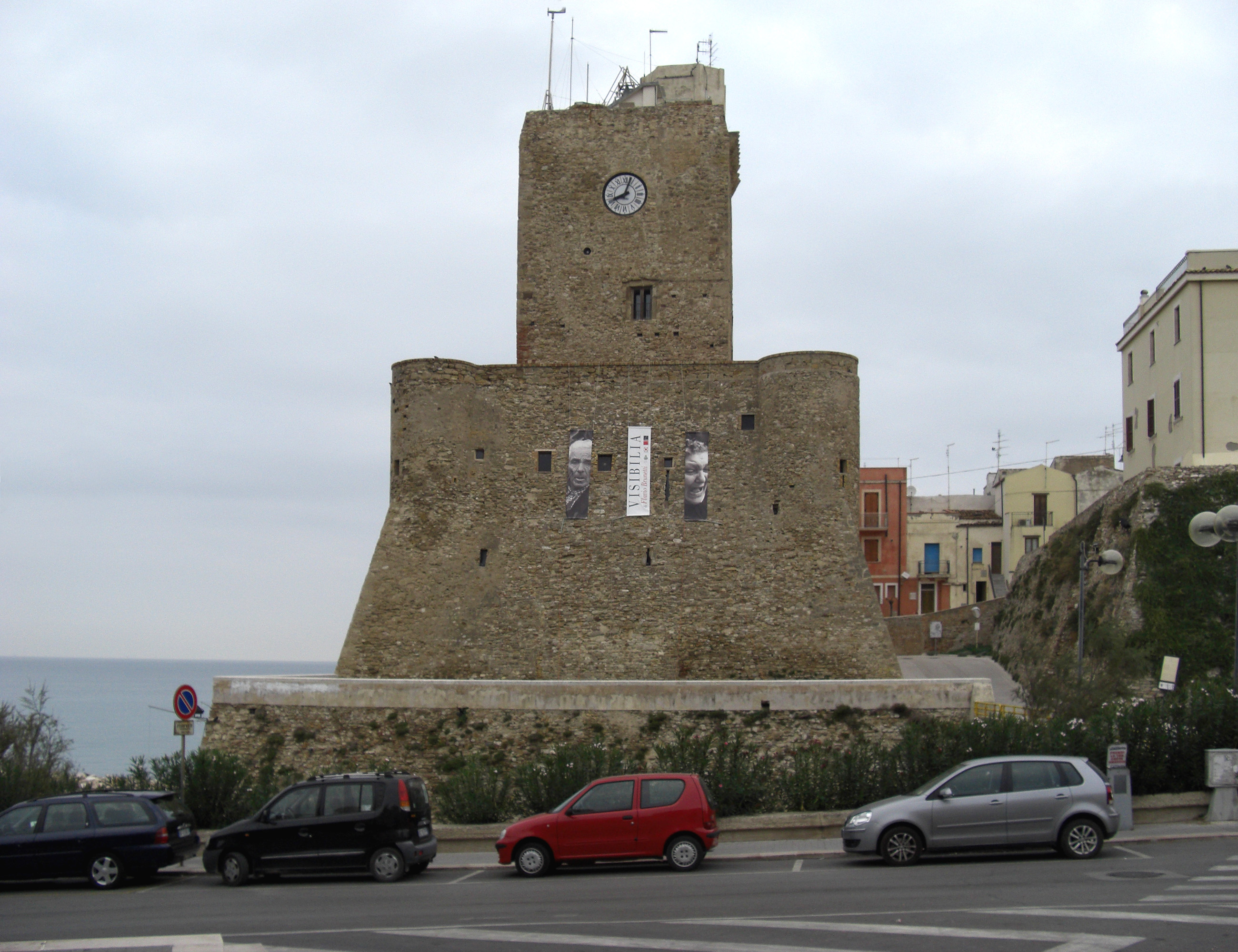 The Castello Svevo in the old town (borgo) of Termoli in Molise in Italy.